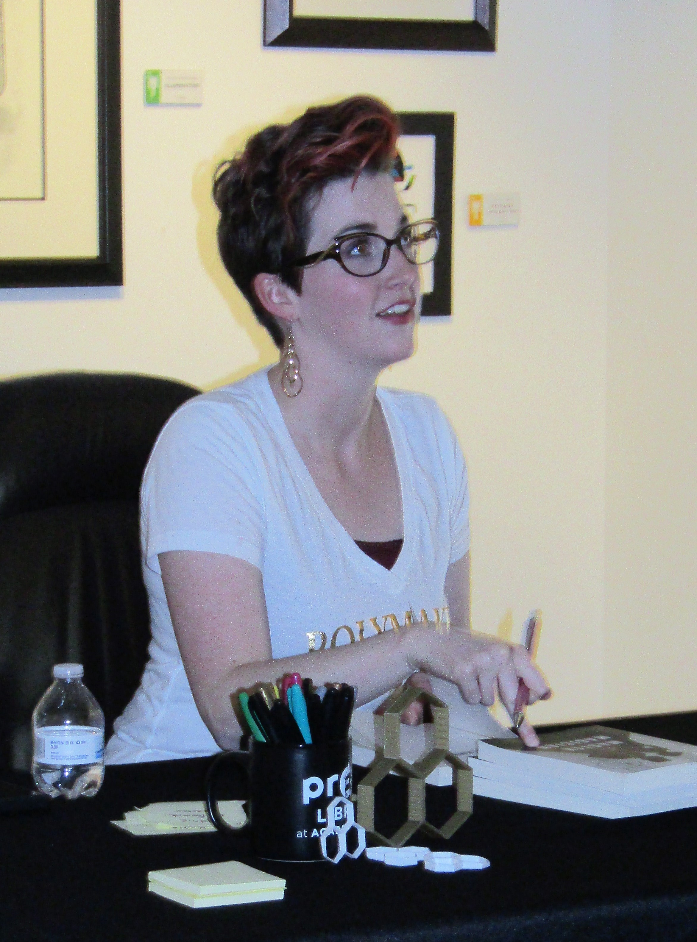 Charlie N. Holmberg at an "AuthorLink"; event at the Provo City Library for her book The Plastic Magician.